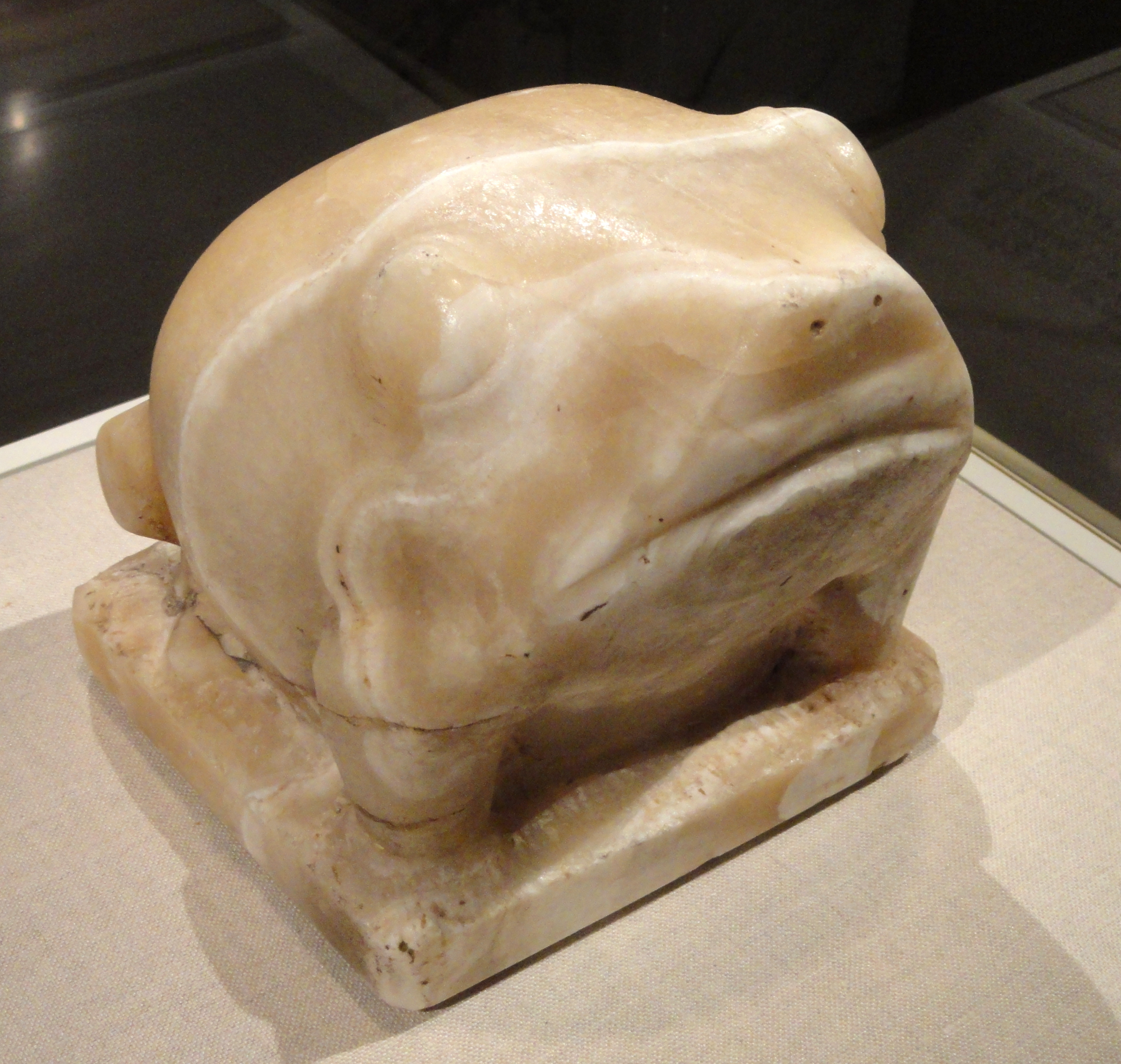 Exhibit in the Cleveland Museum of Art, Cleveland, Ohio, USA. This artwork is old enough so that it is in the public domain.